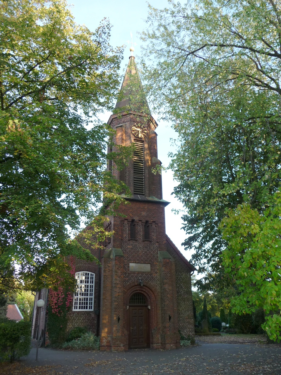 Church in Bremen-Grambke